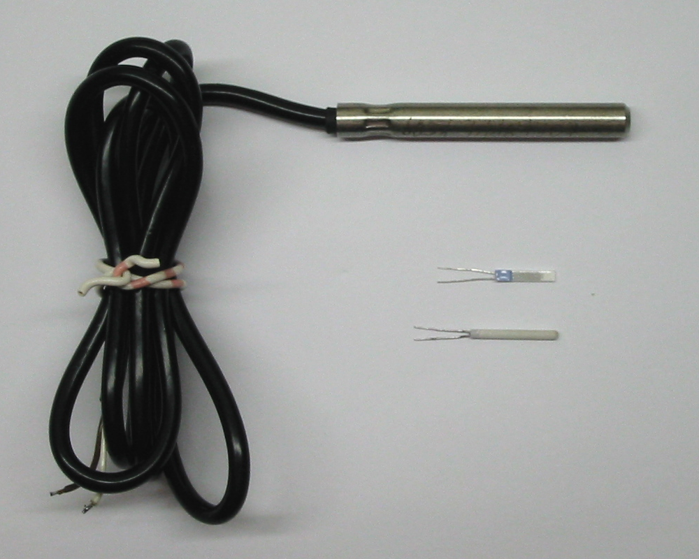 three different Pt100 temperature sensors